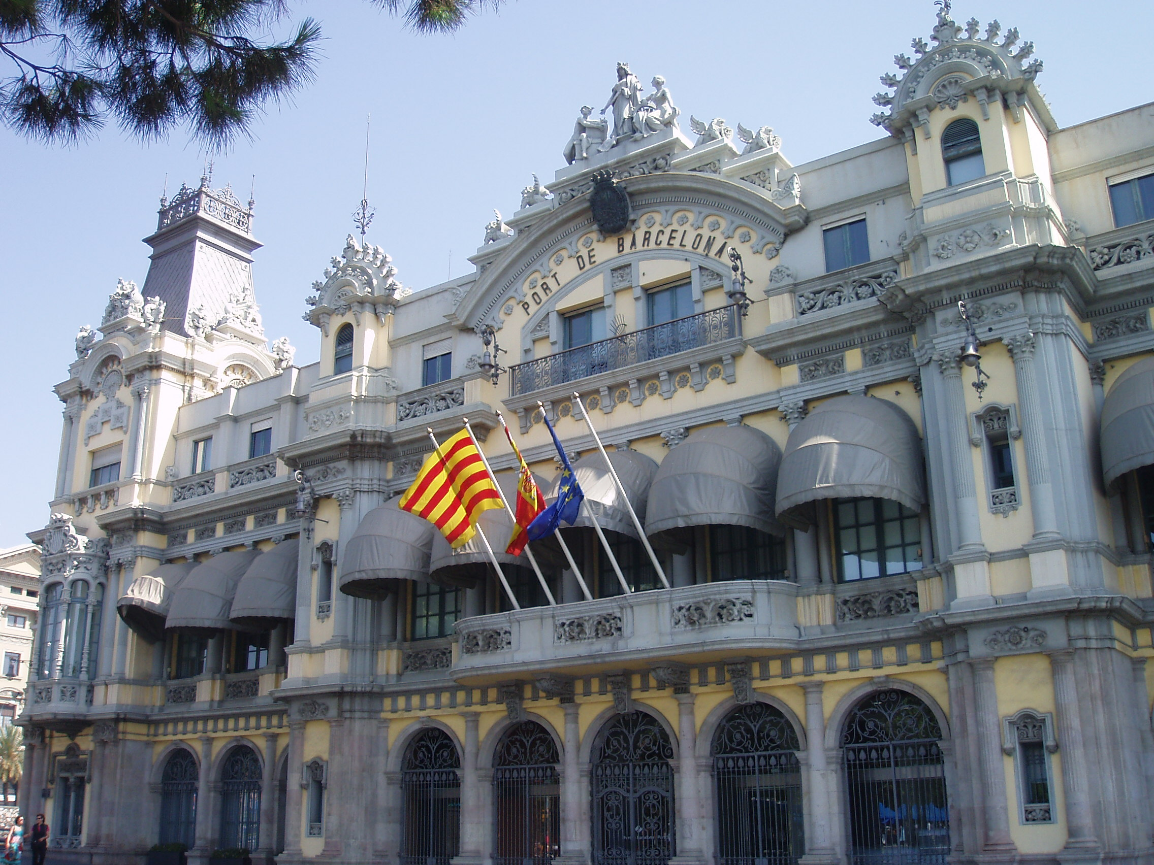 Port of Barcelona building, in Barcelona, Spain.